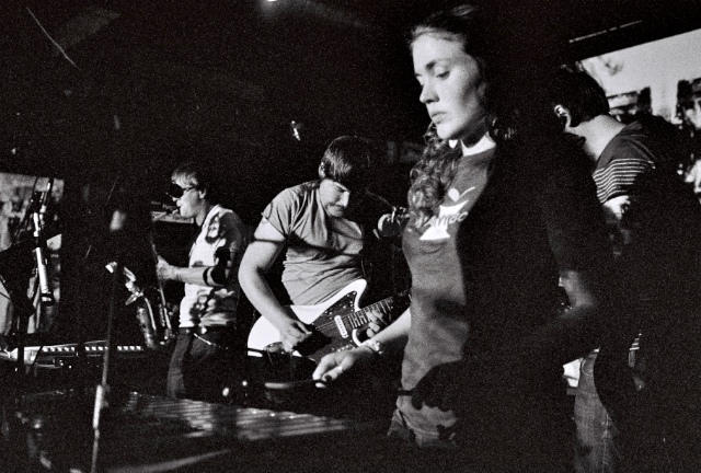 Another view of the mighty Remember Remember at the legendary festival by Capsule at the Custard Factory, Birmingham, 2009.